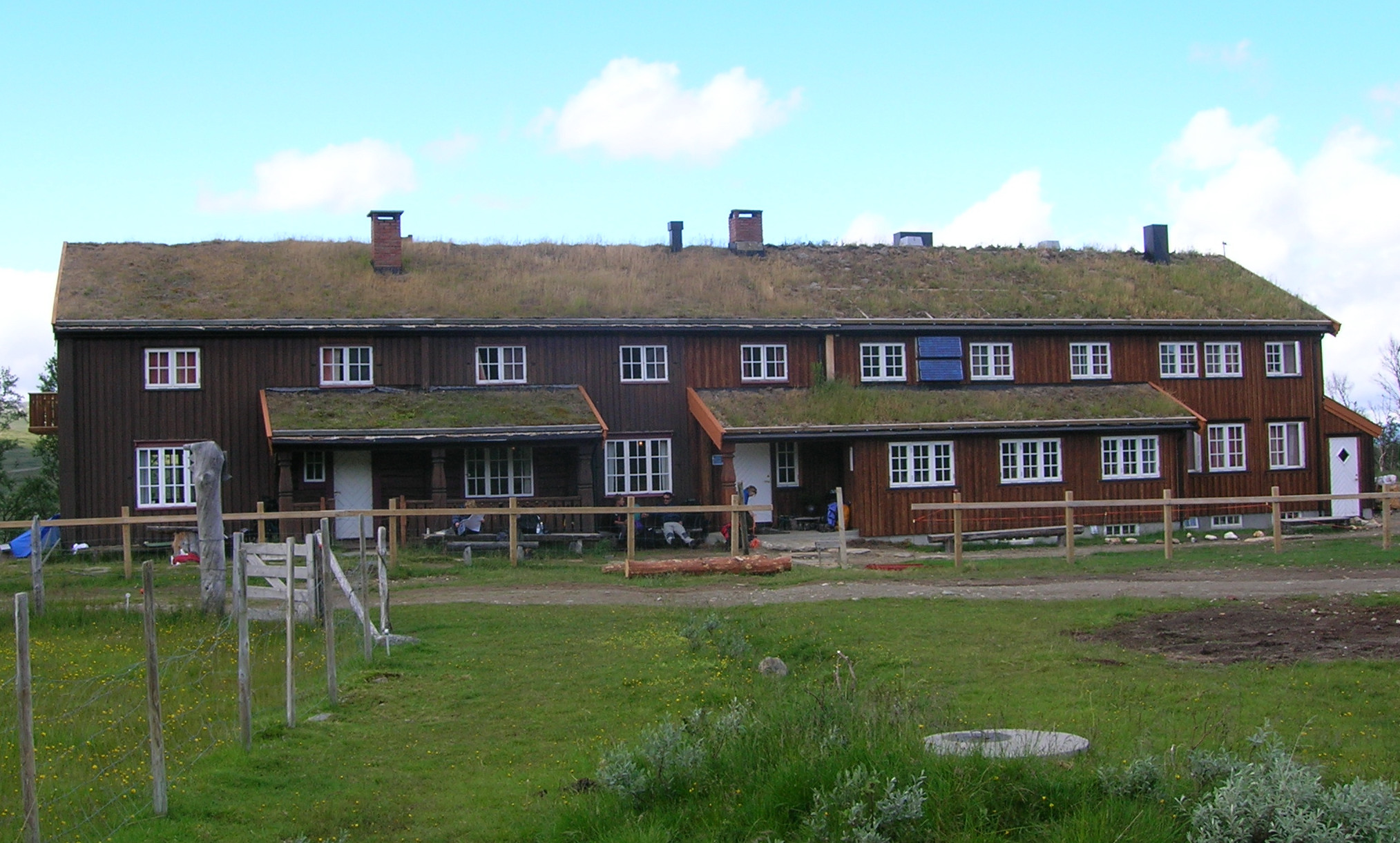 Jøldalshytta in Trollheimen, Norway